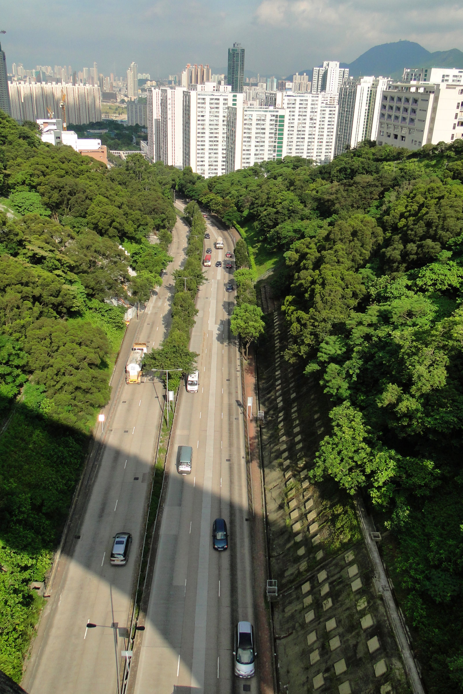 Clear Water Bay Road, Hong Kong.